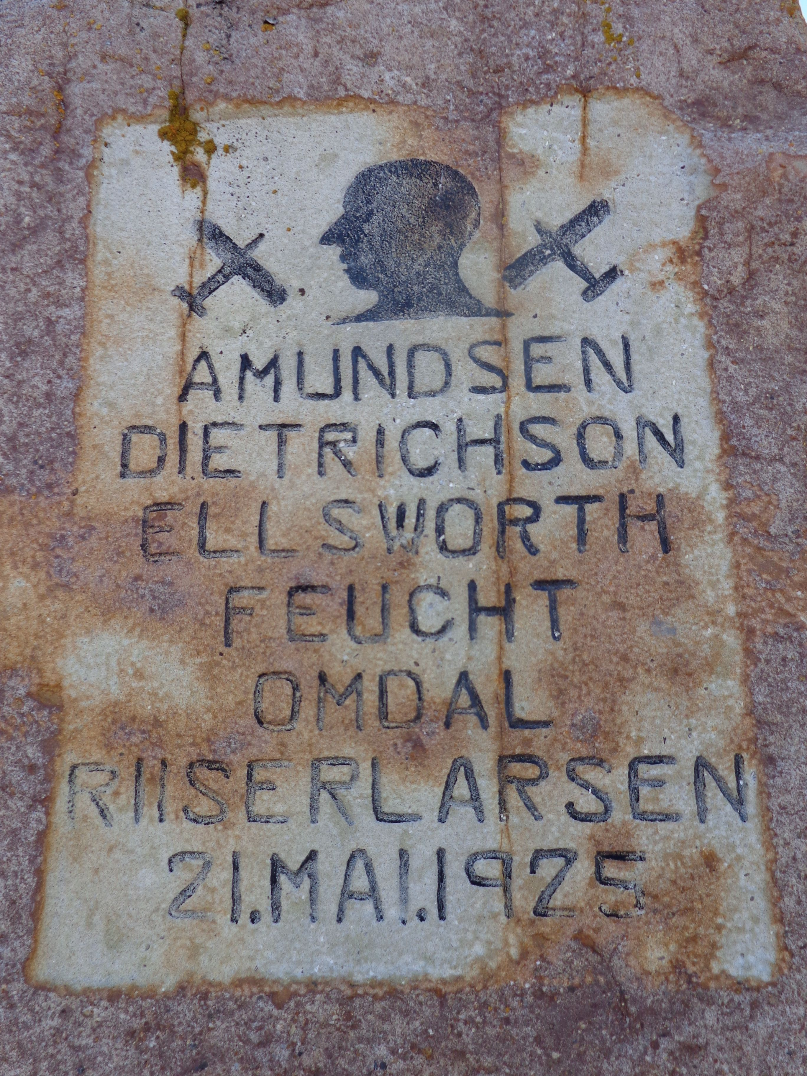 Monument to the Amundsen expedition of 1925, Ny-Ålesund